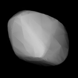 3D convex shape model of 301 Bavaria, computed using light curve inversion techniques. J. Hanuš, J. Ďurech, M. Brož, B. D. Warner (June 2011). "A study of asteroid pole-latitude distribution based on an extended set of shape models derived by the lightcurve inversion method". Astronomy and Astrophysics 530: A134. ISSN 0004-6361. arXiv